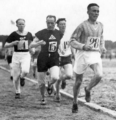 Paavo Nurmi, behind leader Ville Ritola, checks his stopwatch during a 5,000 m race in Porvoo in May 1928.